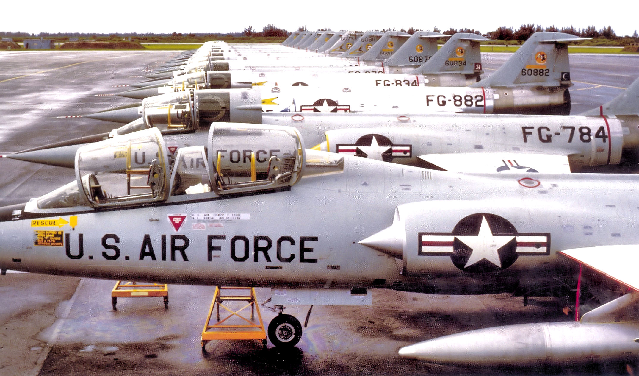 319th Fighter-Interceptor Squadron Lockheed F-104A-15-LO Starfighters Webb AFB, Texas, February 1964. Aircraft shown TDY At Homestead AFB, Florida. Serials identified are 56-784 56-882 56-834